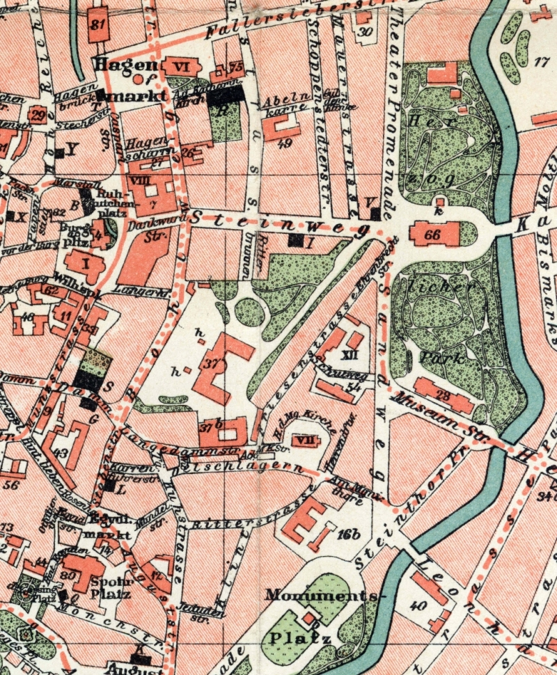 Map from 1899 of the city centre of Brunswick, Germany, showing the important places of of the November Revolution in 1918 (Brunswick Palace is marked “37“)